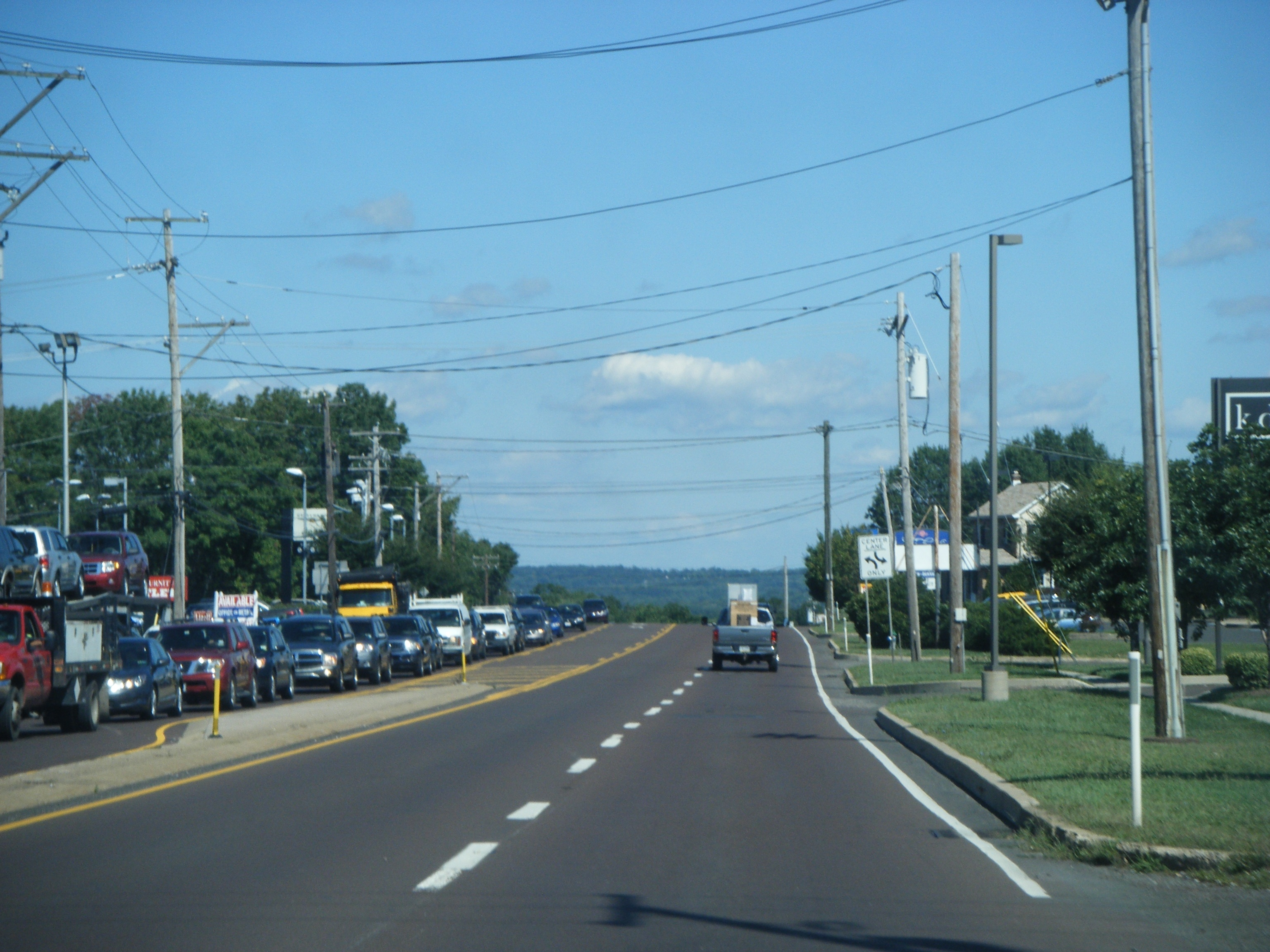 Northbound Pennsylvania Route 309 (Bethlehem Pike) past the Five Points intersection with Pennsylvania Route 463/Doylestown Road in Montgomery Township, Pennsylvania.